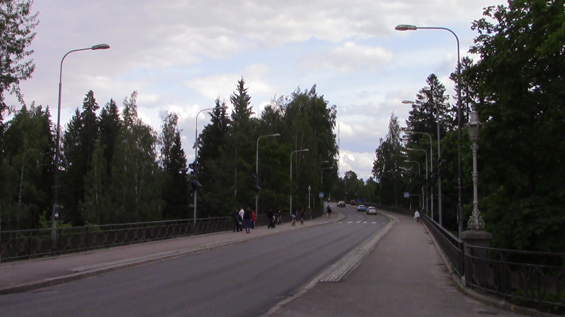 Finnish regional road 397 at bridge crossing Imatrankoski rapid in Imatra. The road runs from Korvenkylä to Imatrankoski suburb.